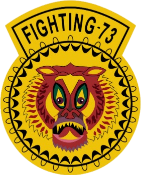 Insignia of the U.S. Navy Attack Squadron 73 (VF-73) "Jesters".